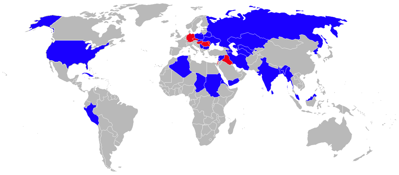 This map shows all MiG-29 operators including the United States